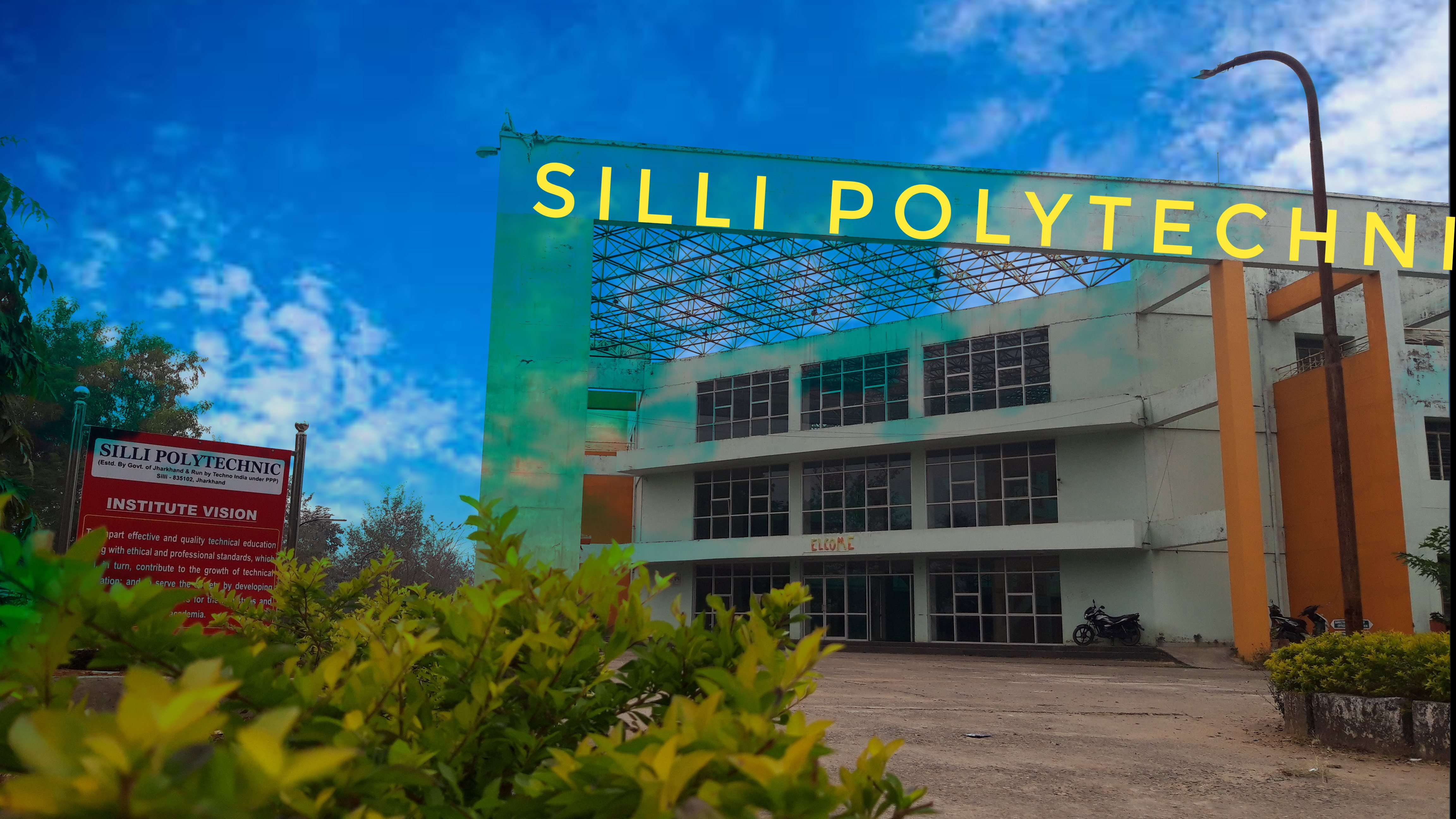 This represents an image of Silli polytechnic